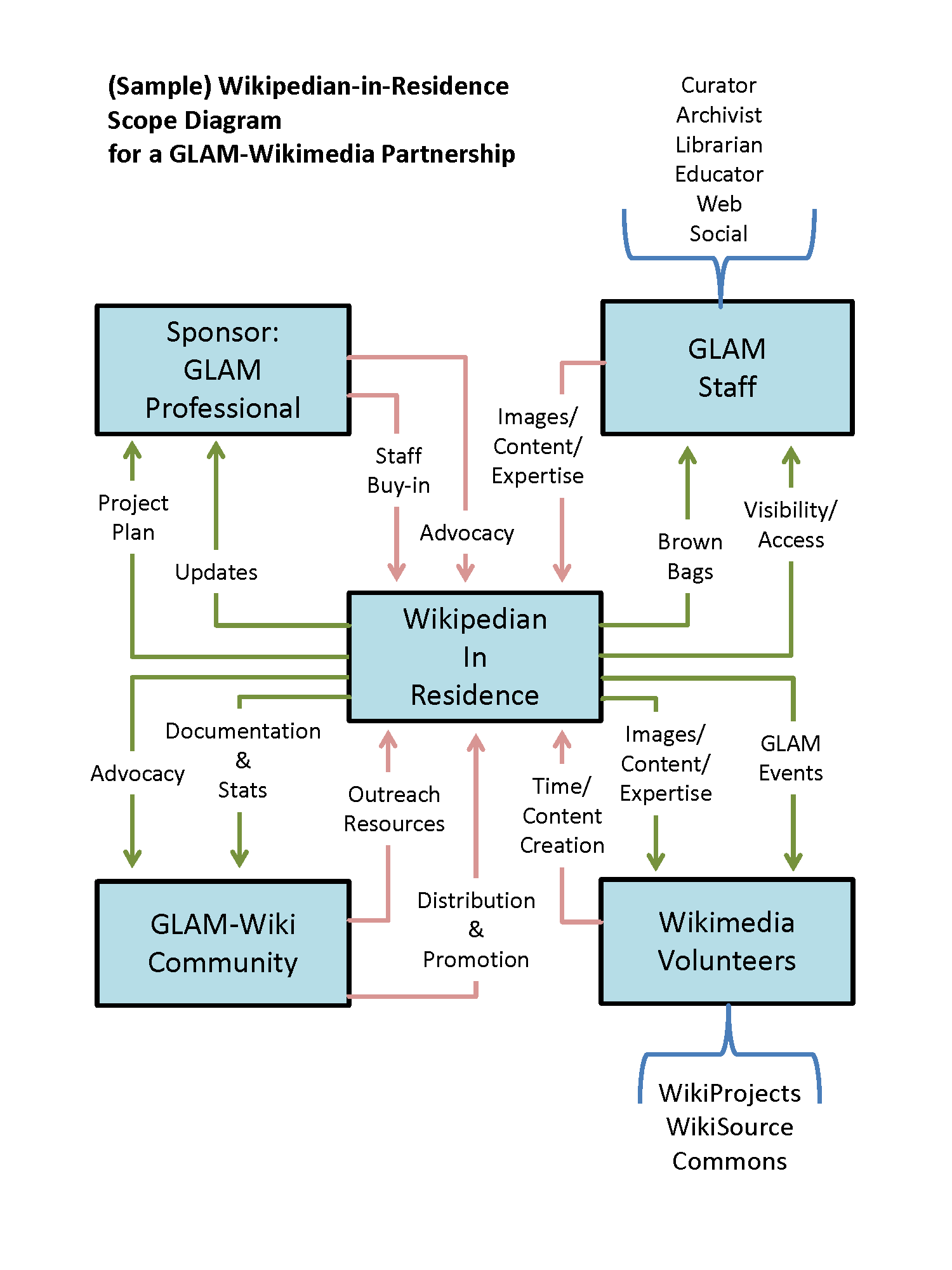 Following project management models, this scope diagram represents the stakeholders and inputs and outputs (what each stakeholder provides and receives) in a typical Wikipedian in Residence project for GLAM (industry sector), an acronym for Galleries, Libraries, Archives, and Museums, the cultural heritage institutions. This PNG is based on File:Wikipedian in Residence Scope Diagram.pdf by Lori Byrd Phillips. This file is also available in Microsoft PowerPoint 2010 (.pptx) and .pdf formats. Contact the author for details.